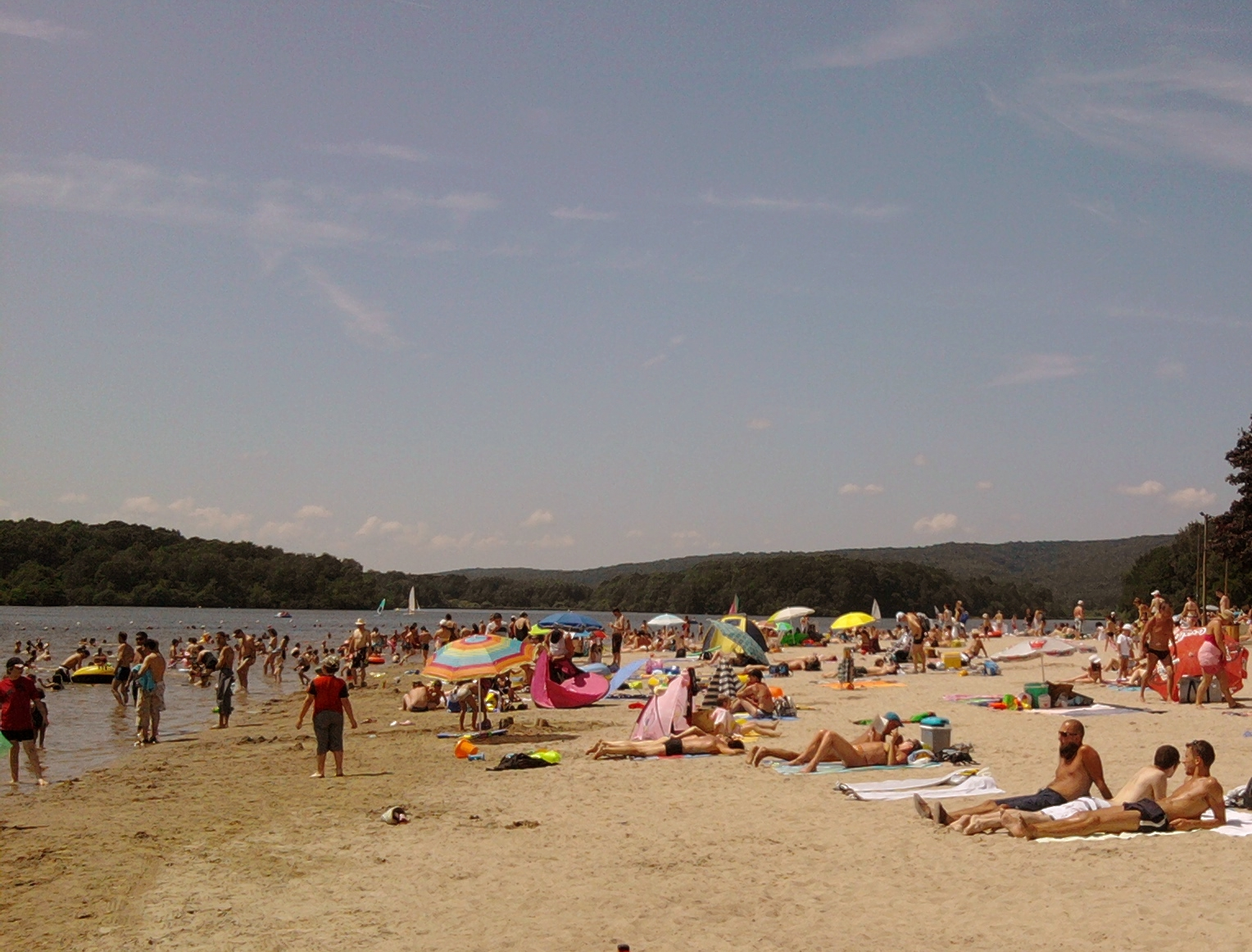 Personality rights warning Although this work is freely licensed or in the public domain, the person(s) shown may have rights that legally restrict certain re-uses unless those depicted consent to such uses. In these cases, a model release or other evidence of consent could protect you from infringement claims.